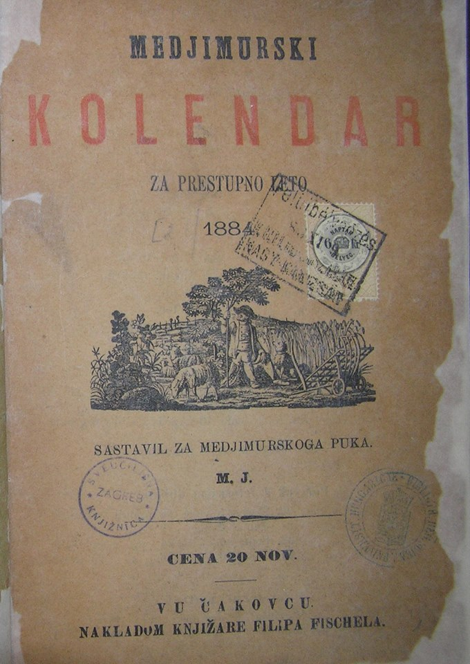 Medjimurski kolendar (Međimurian calendar) from 1884. Calendar in Kajkavian Croatian (Međimurian) language, was the instrument of the Magyarization propaganda in the Međimurje. Editor is József Margitai (1854-1934)